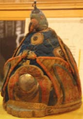 1st prototype of Raven Crown used by Jigme Namgyal the father of the First Dragon King of Bhutan.